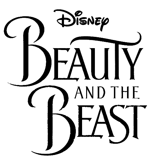 Logo of the 2017 Disney film Beauty and the Beast